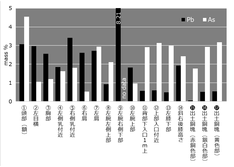 Weight % of Pb and As contained in Cu alloy of Todaiji Great Buddha.